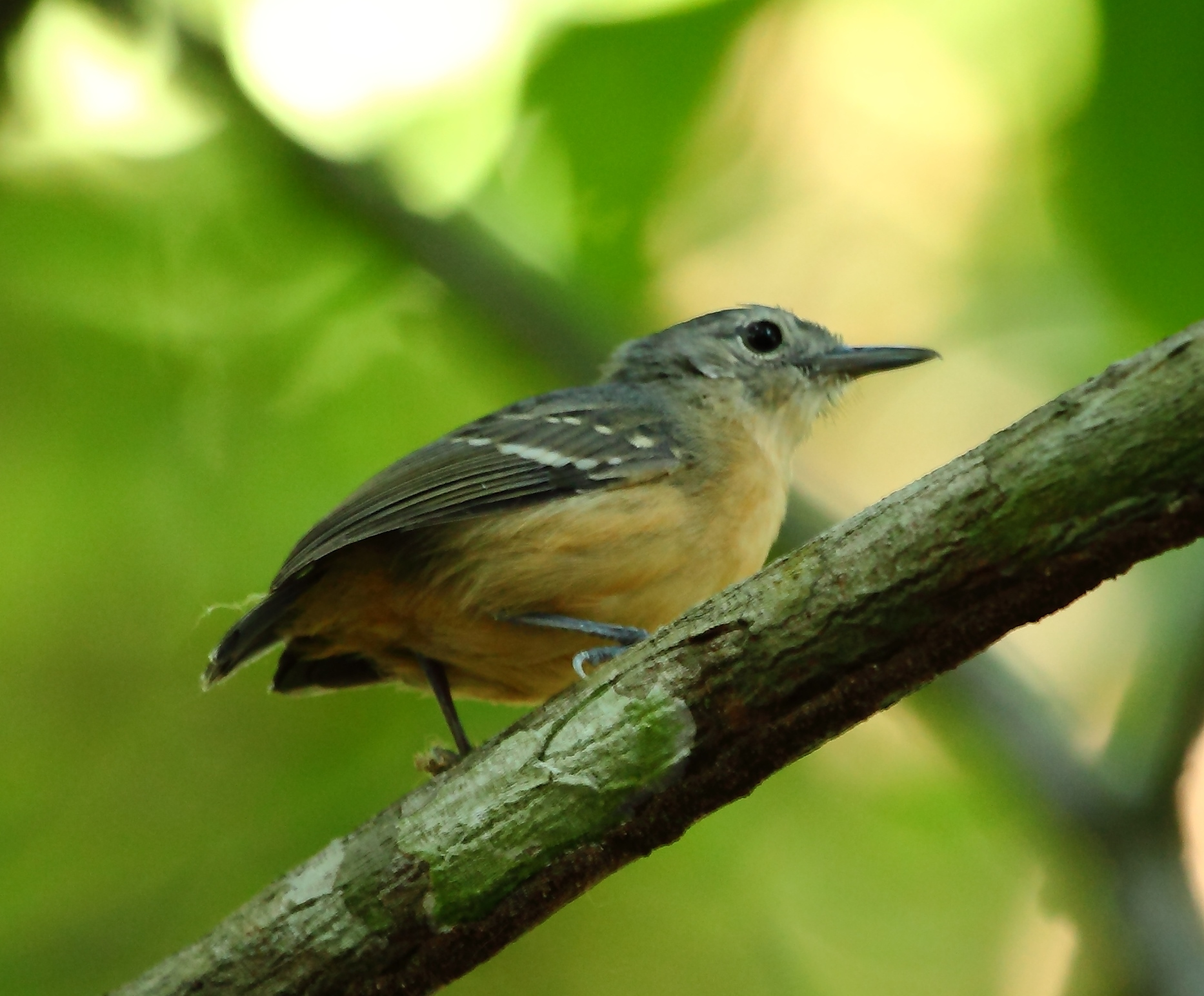 Leaden antwren (female) at Iranduba - Amazonas - Brazil